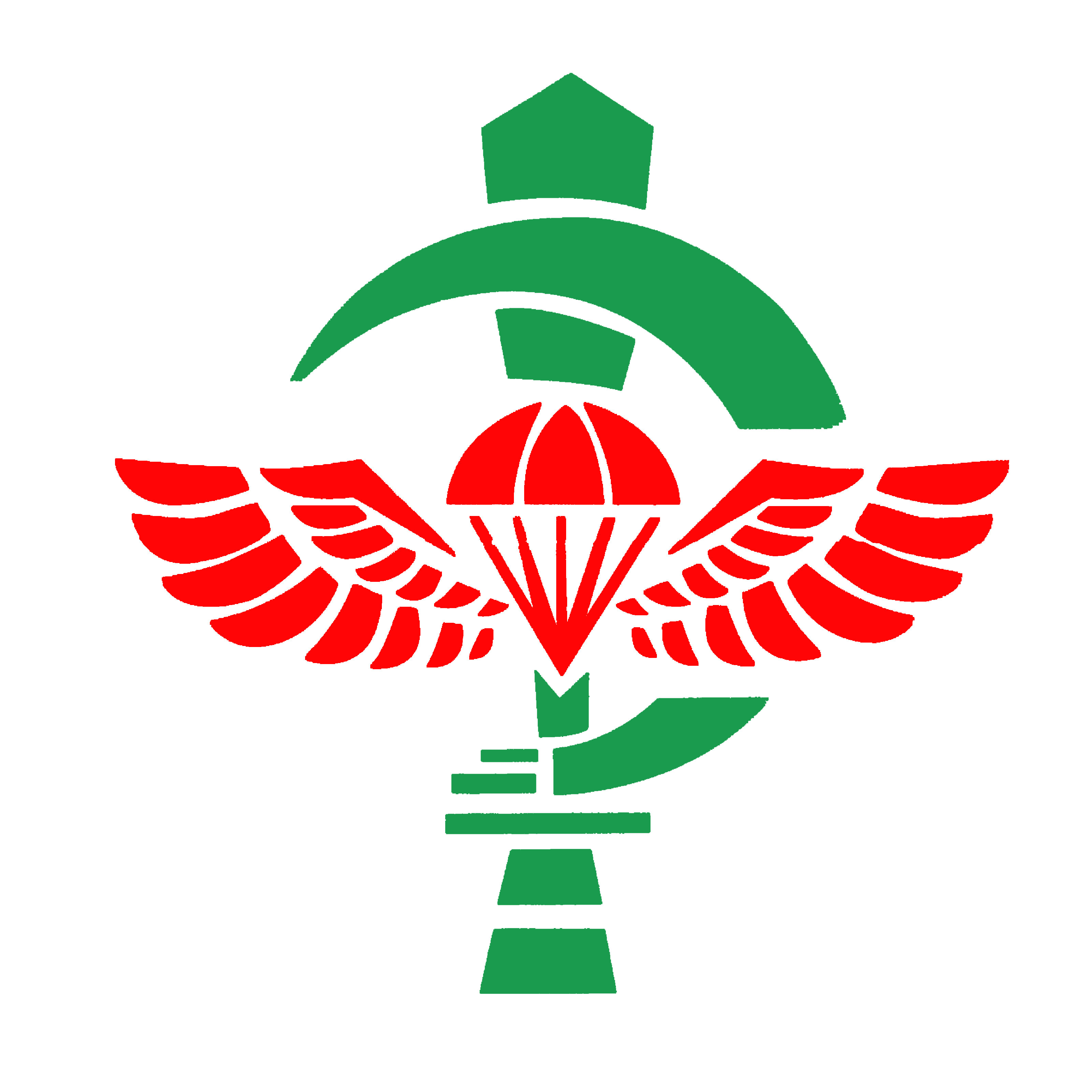 'Bazelet' brigade